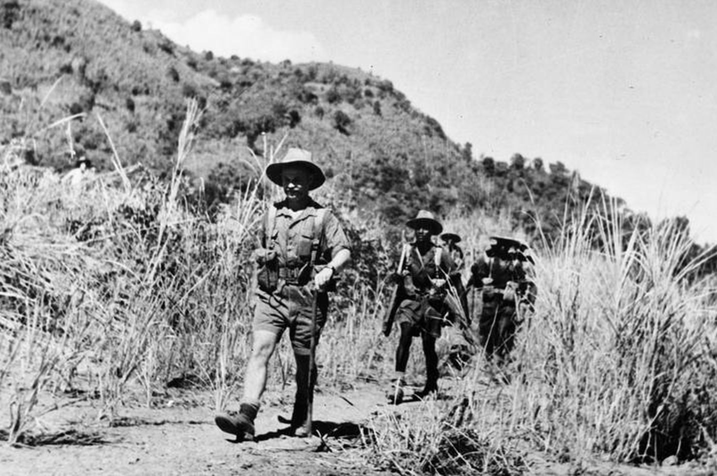 Imperial War Museum Photograph Archive Collection Captain Jan K. Żeleźnik MC leading a patrol of the 1st Battalion, the Gambia Regiment (6st West African Infantry Brigade, 81st West African Division) near Ma Kyaze during the Third Arakan Campaign, January 1945.